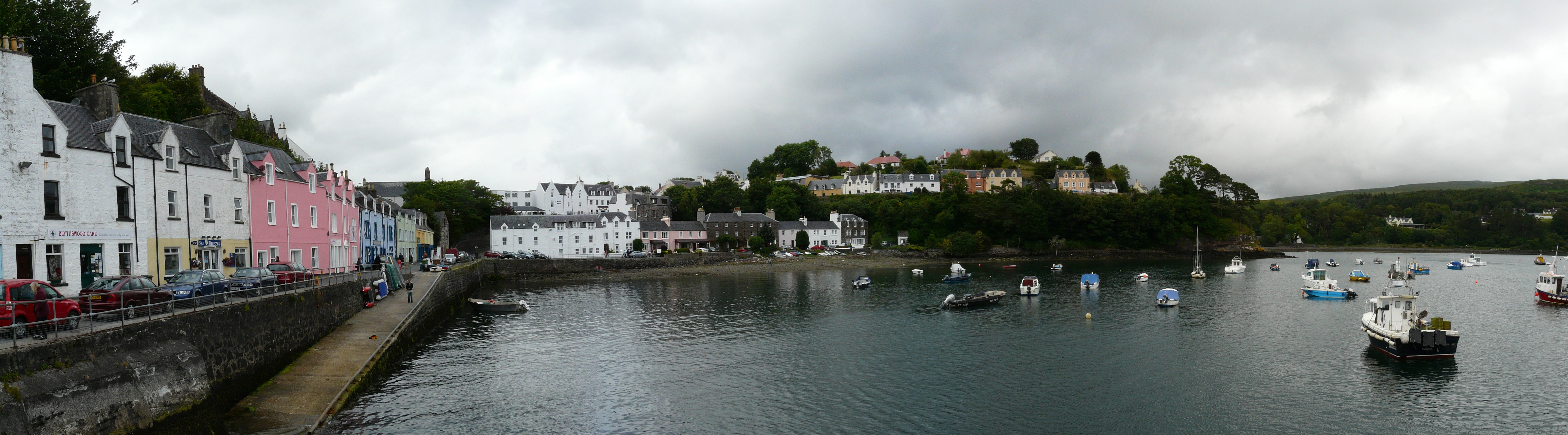 Panorma of the Portree harbor, Isle of Skye